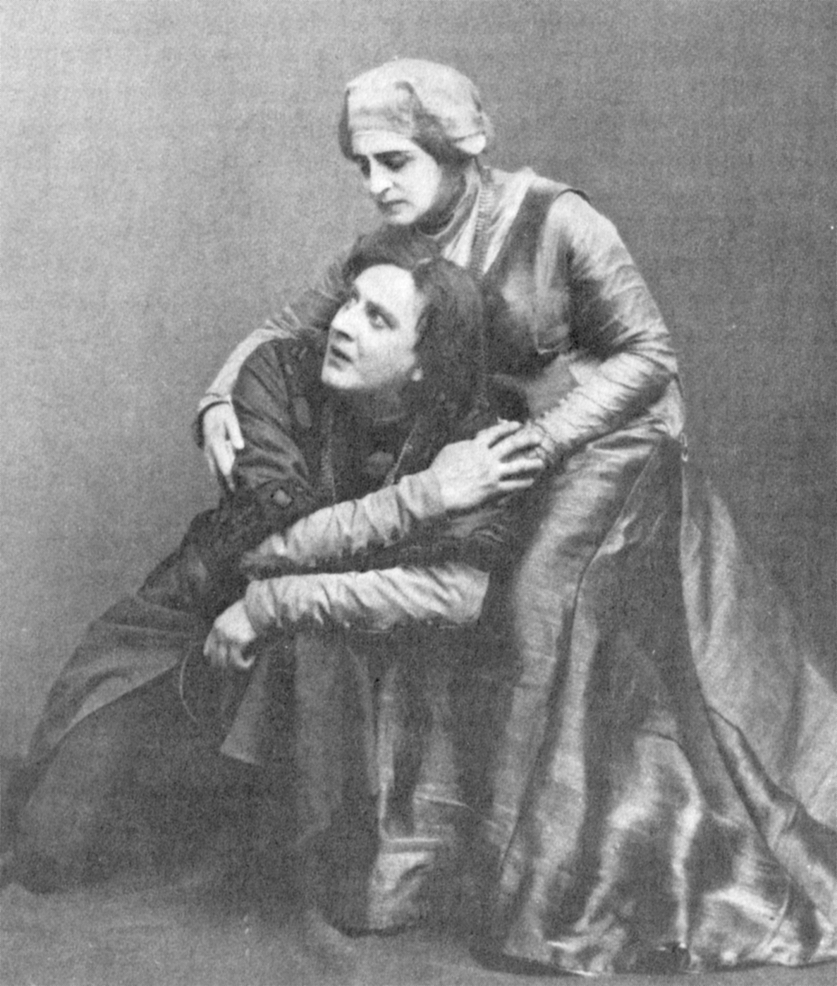 Russian actors Vasili Kachalov and Olga Knipper as Hamlet and Gertrude in Edward Gordon Craig and Constantin Stanislavski's production of Hamlet (1911)